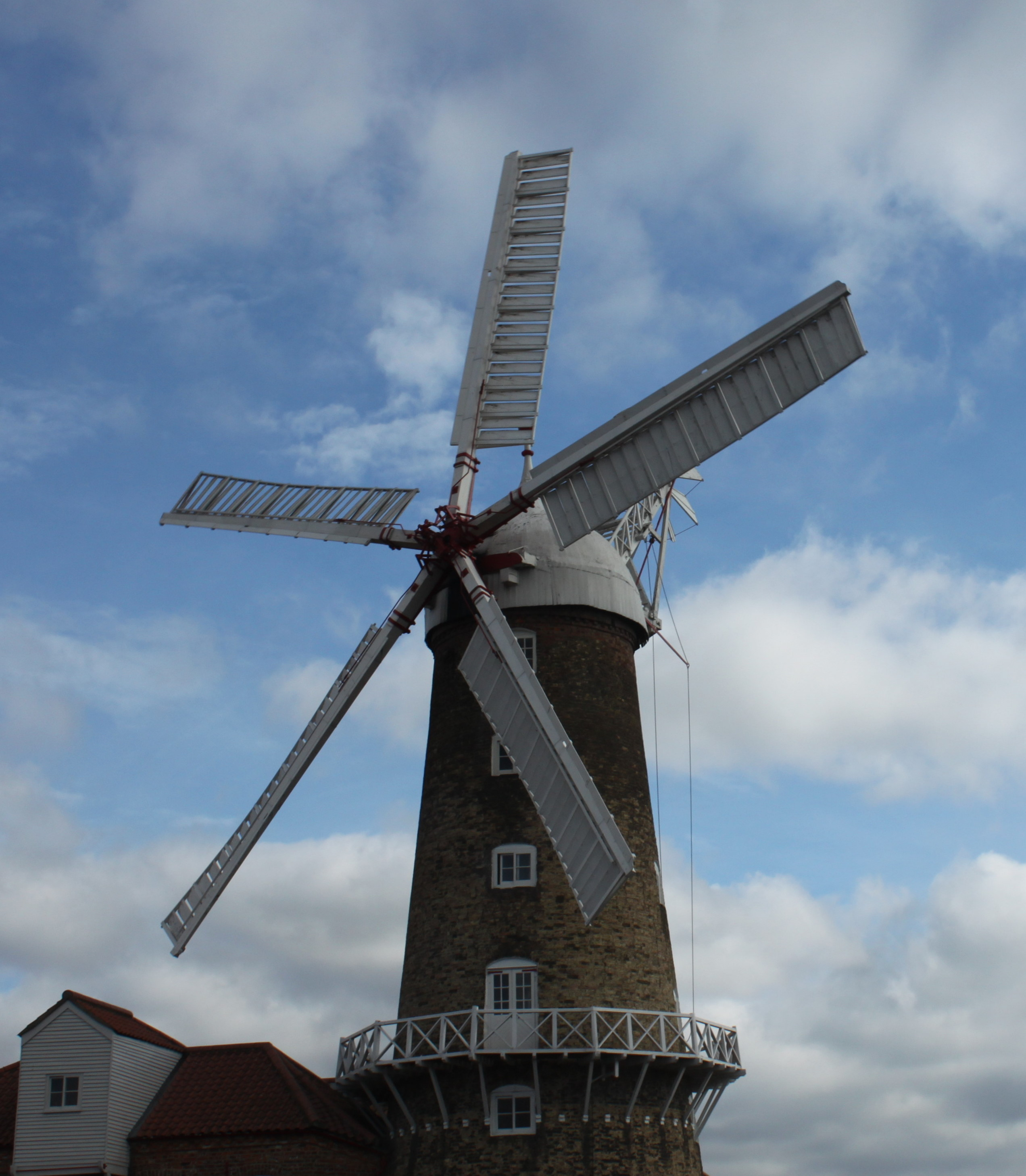 The Maud Foster windmill in Boston, Lincolnshire